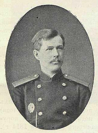 Freyman, Otto Rudolfovich (1849 — 1924) — Major general of the Russian Empire.